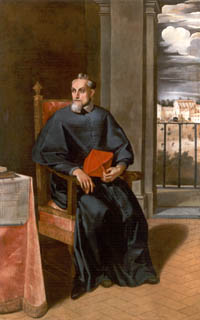 Antonio Marcello Barberini (1569-1646)